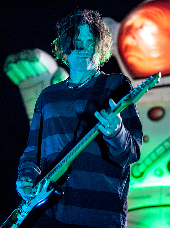 Larry LaLonde performing with Primus in Pordenone, Italy.